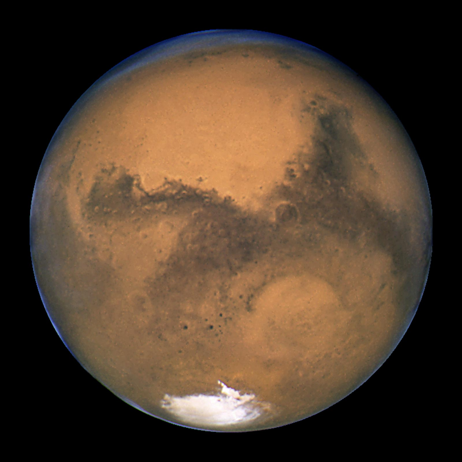 Photograph of Mars taken by the Hubble Space Telescope during opposition in 2003.